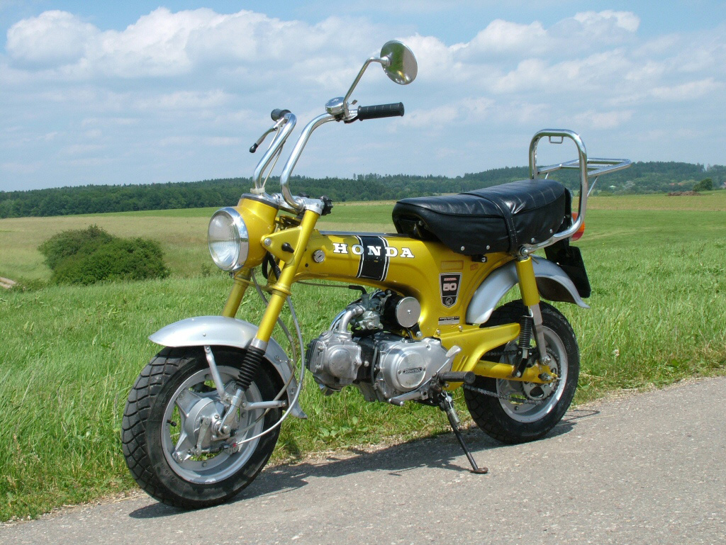 Honda Dax from 1970